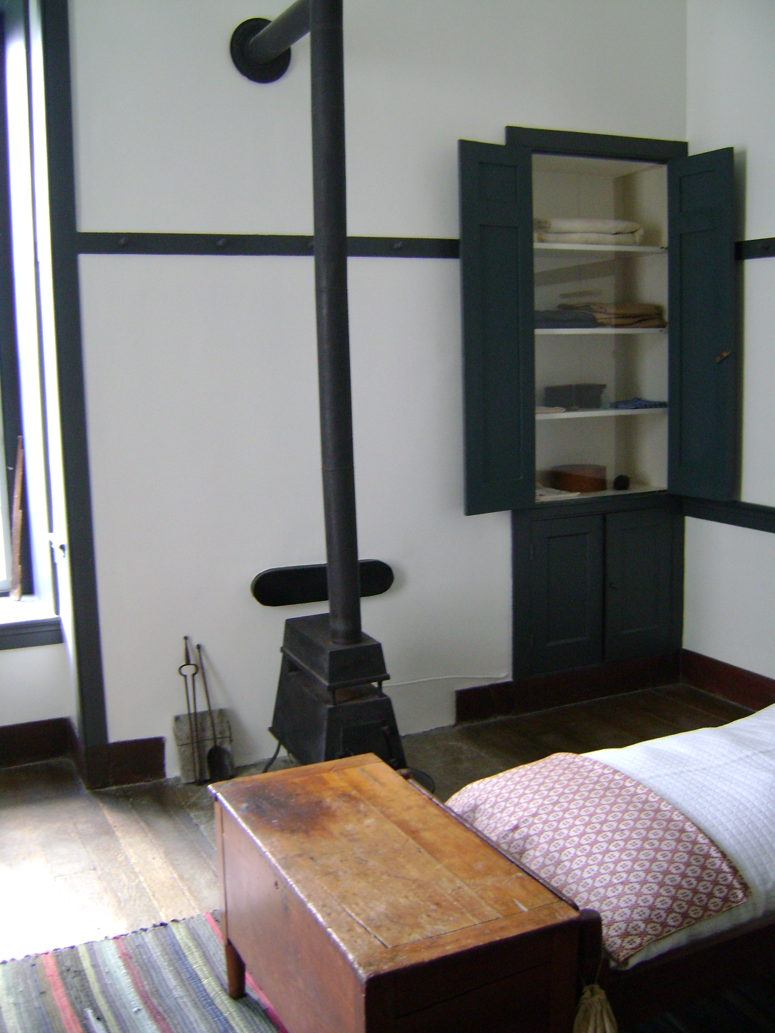 Shaker closet